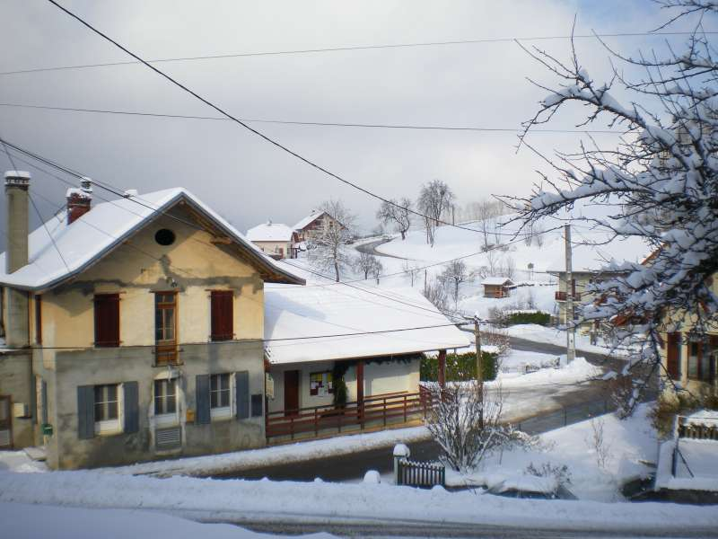 The milk-dairy